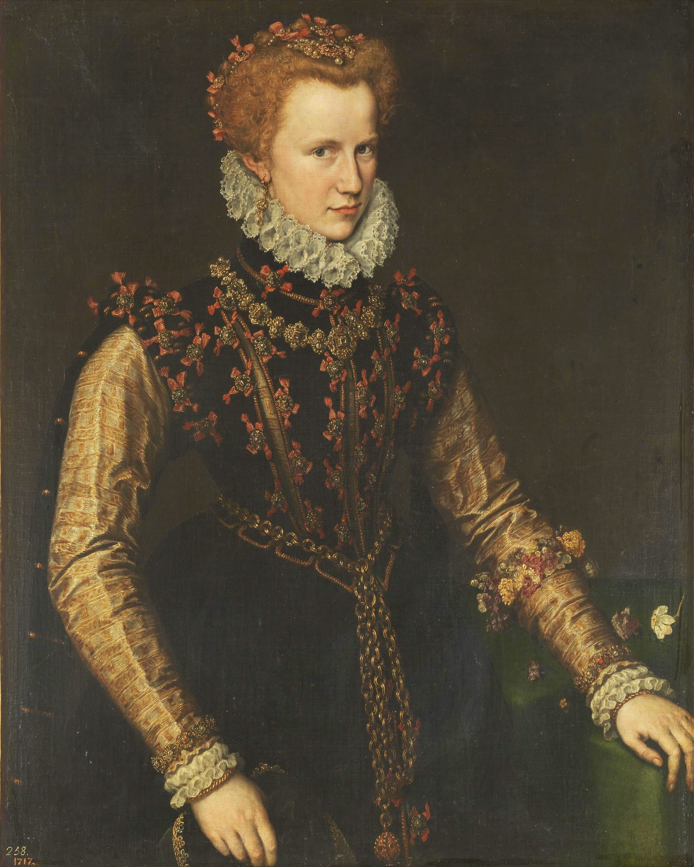 Portrait of an Unknown Lady (said to be Jane Dormer)